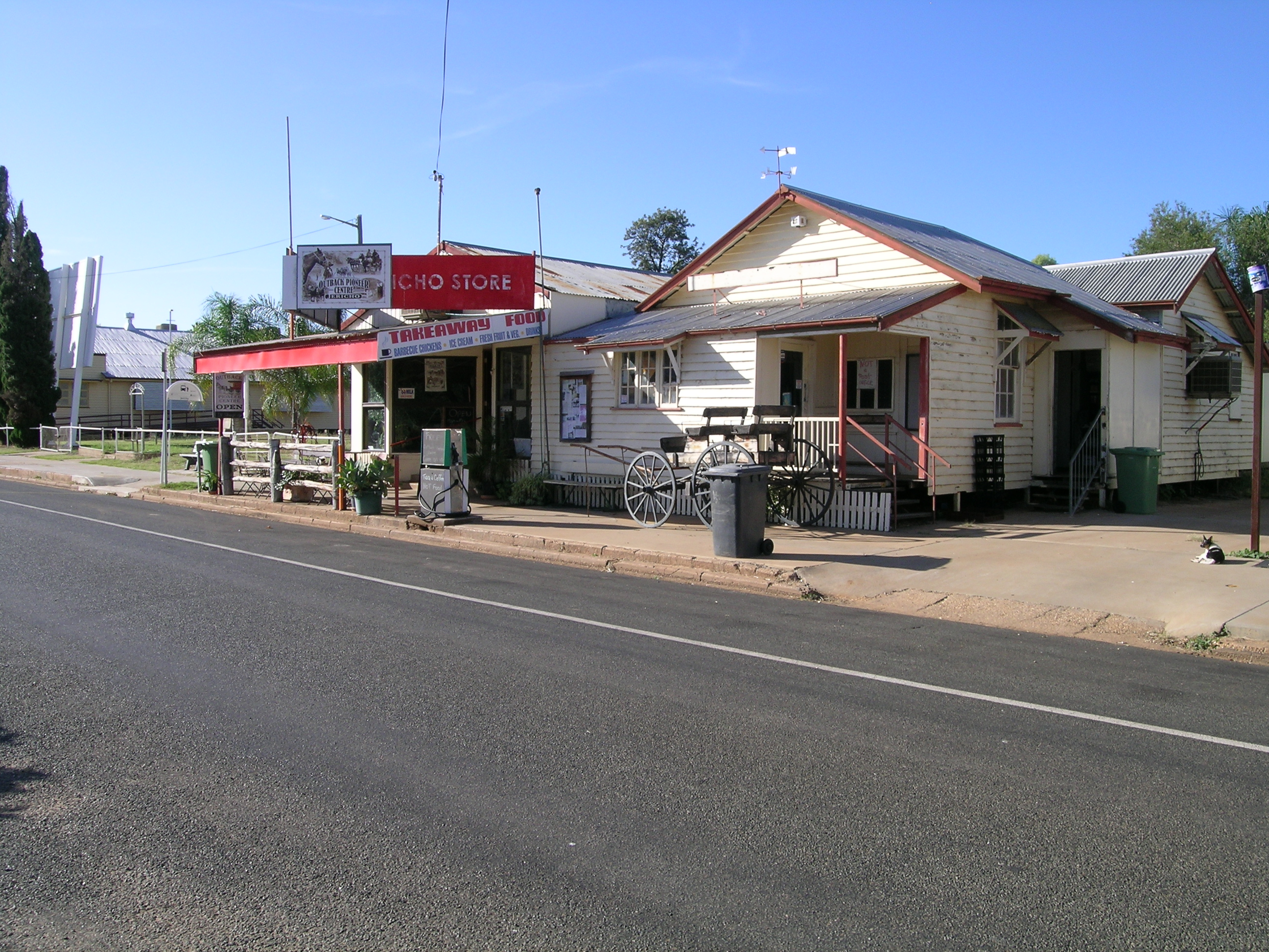 The main street of Jericho, Queensland. [Capricorn Highway]